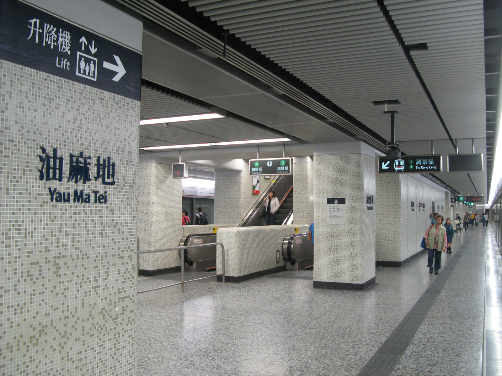 MTR Yau Ma Tei station platform